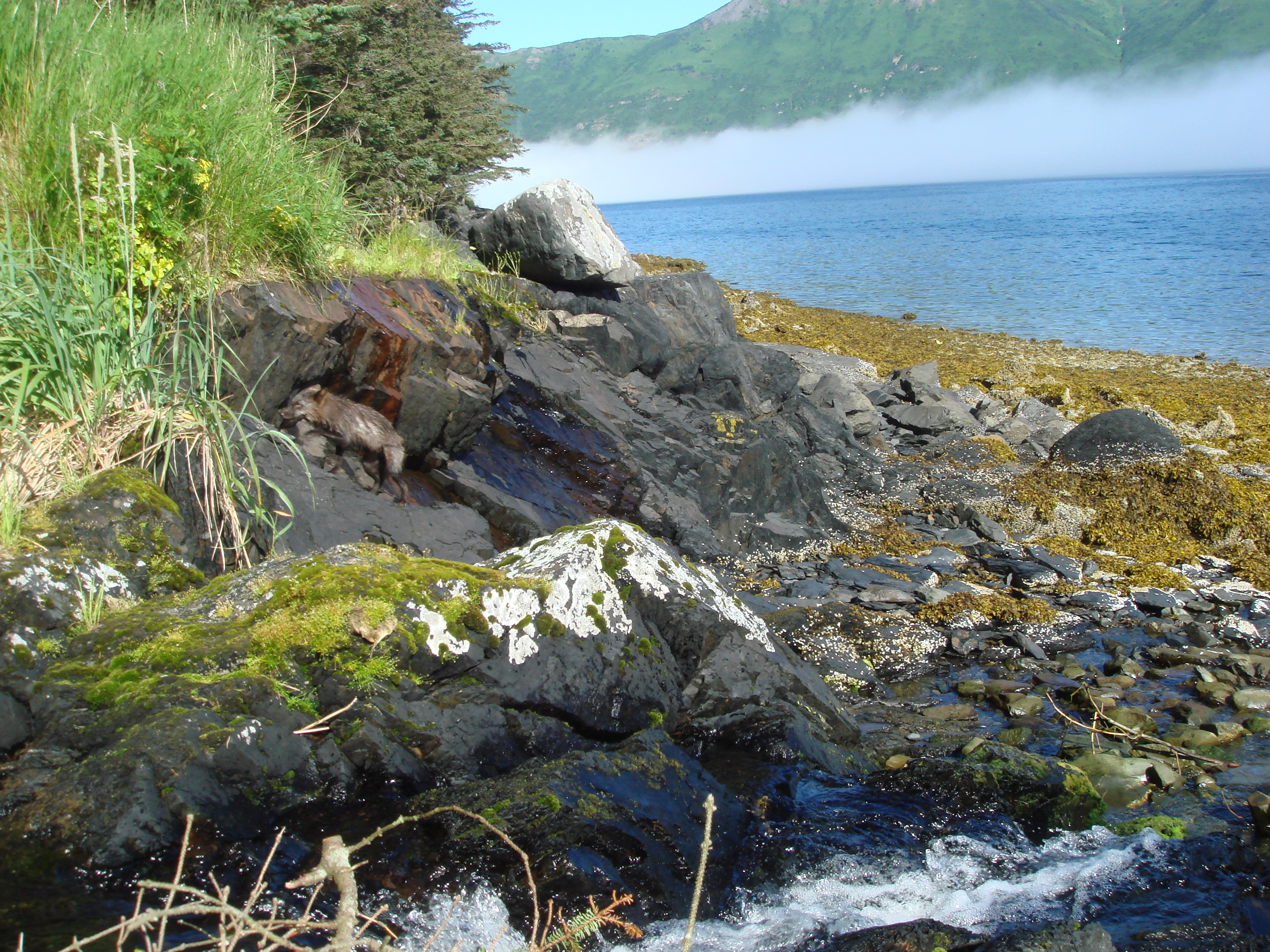 A fox scavanging on Raspberry Island beach